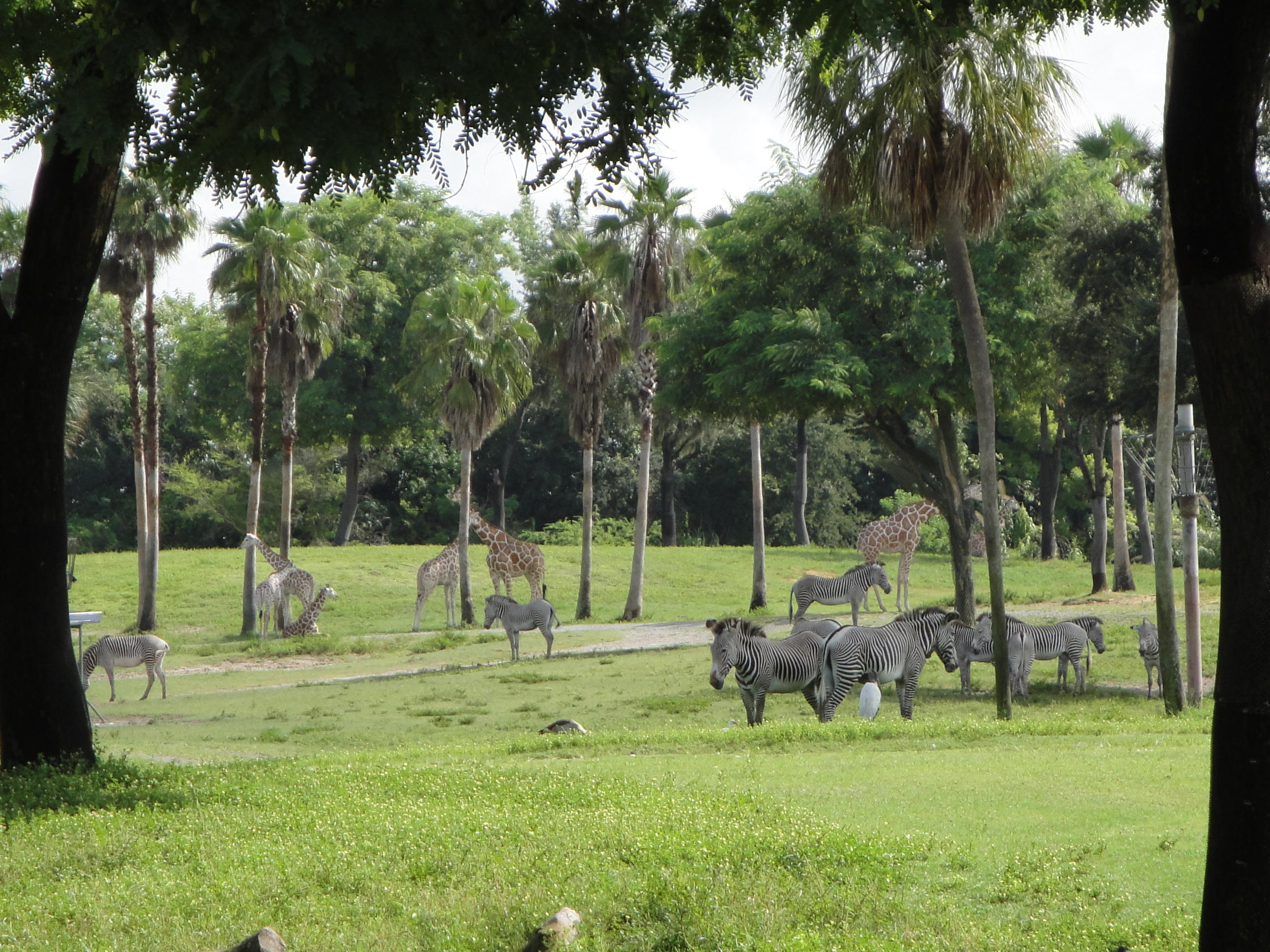 Serengeti Plain (Busch Gardens Africa)